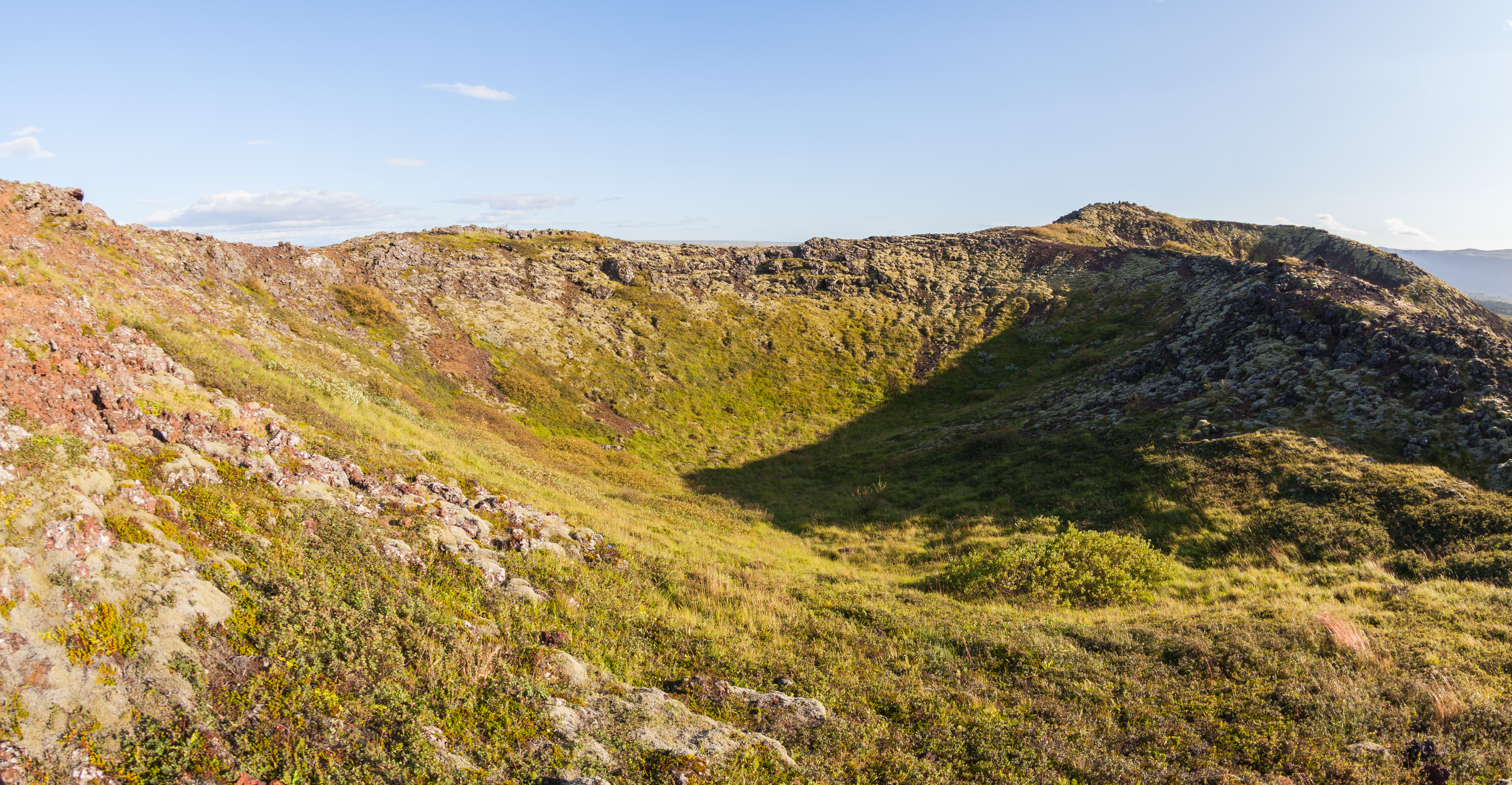 Kerið volcanic crater, Suðurland, Iceland